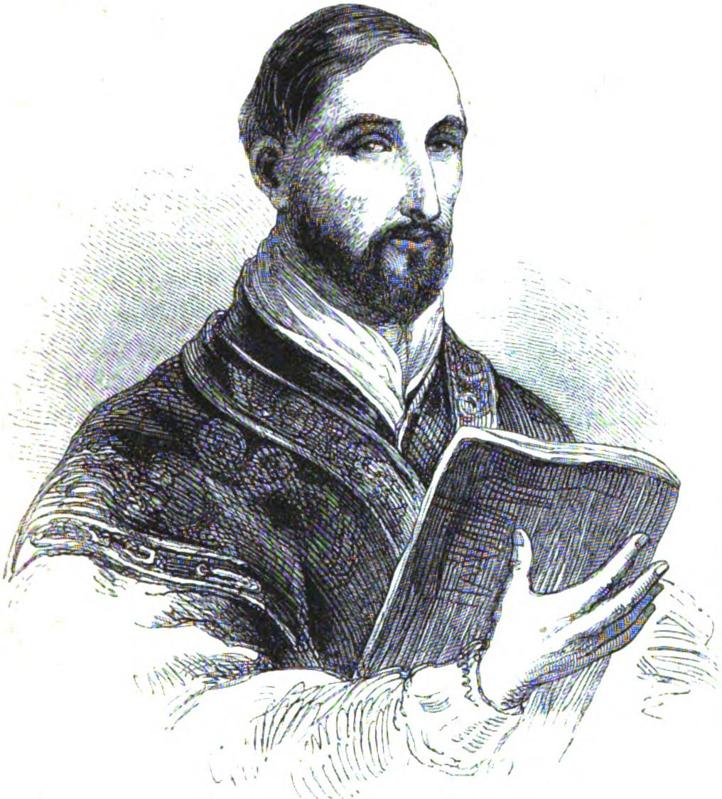 Ignatius Loyola.